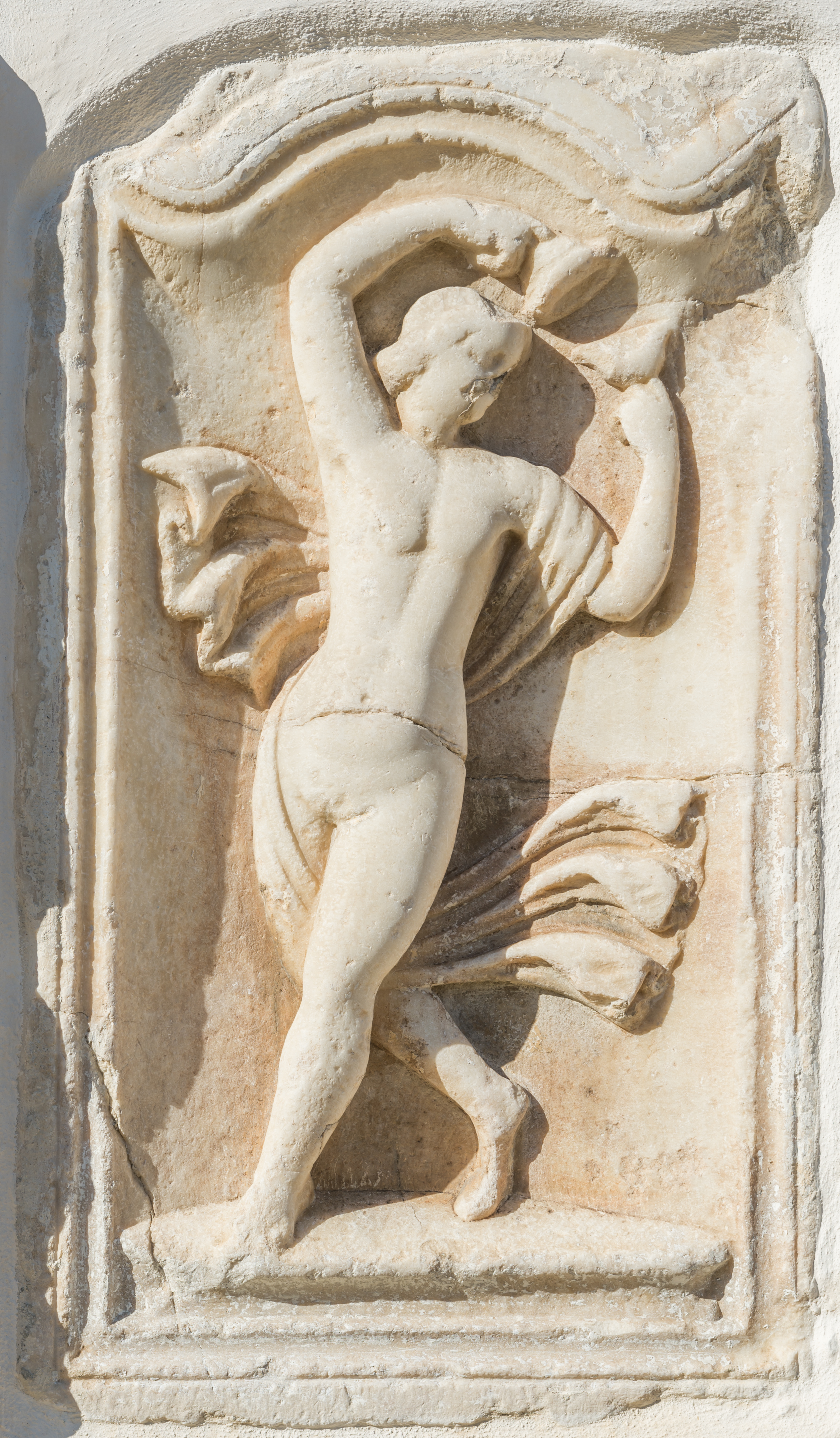 Relief of a dancing Maenad on an ancient Roman gravestone (CSIR II/4, 1984, 307), exposed at the southern exterior wall of the parish church St. James the Greater at Tiffen, municipality Steindorf am Ossiacher See, district Feldkirchen, Carinthia, Austria, EU